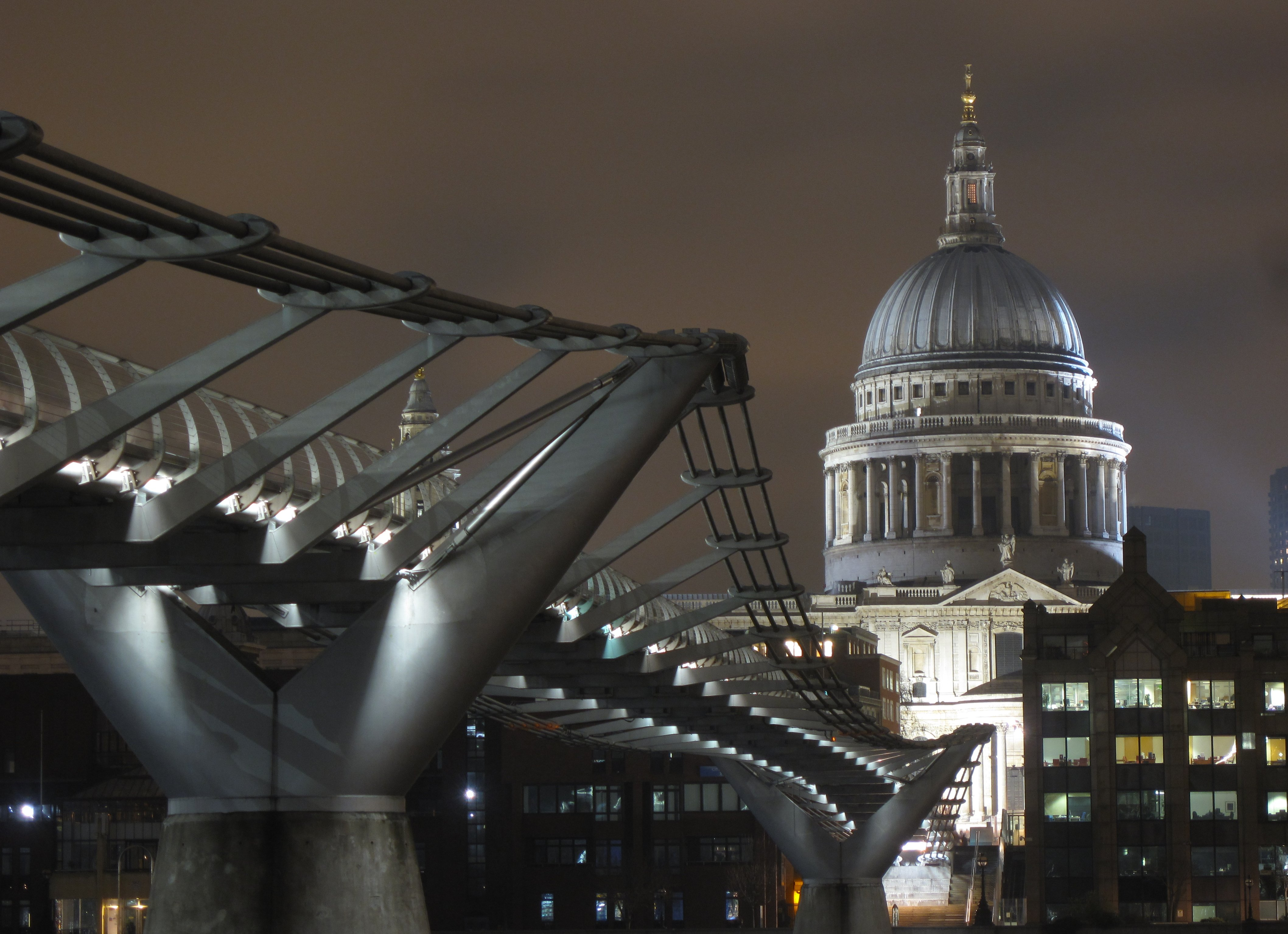 Millennium Bridge with Saint Paul’s Cathedral